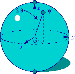 Bloch sphere under the limelight. Oh well, this is my attempt at being artistic